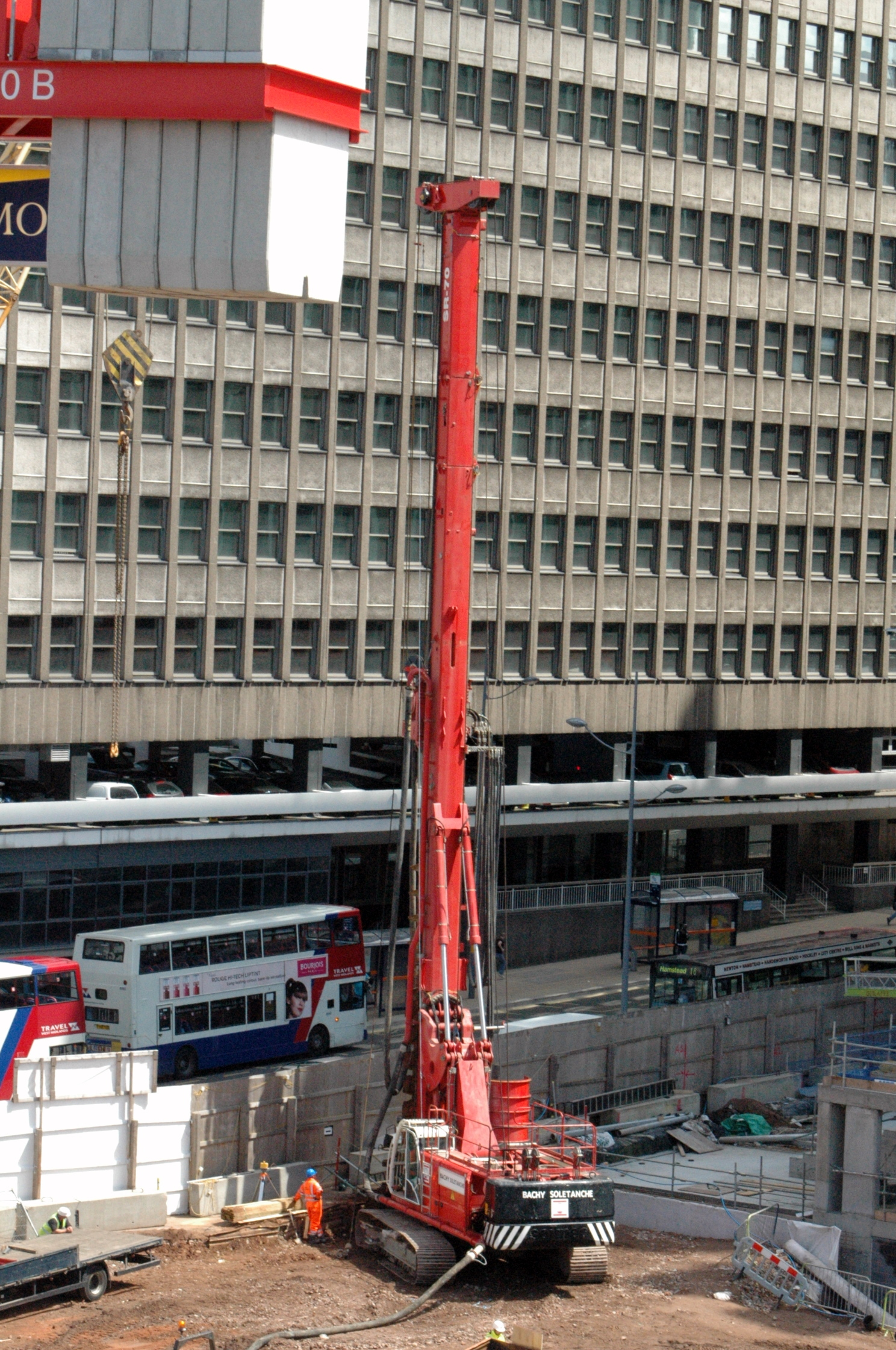 This is a Soilmex SR-70 hydraulic rotary rig machine drilling piles on the Phase 4 site at the Snowhill development in Birmingham, England. It is owned and operated by Bachy Solentache.